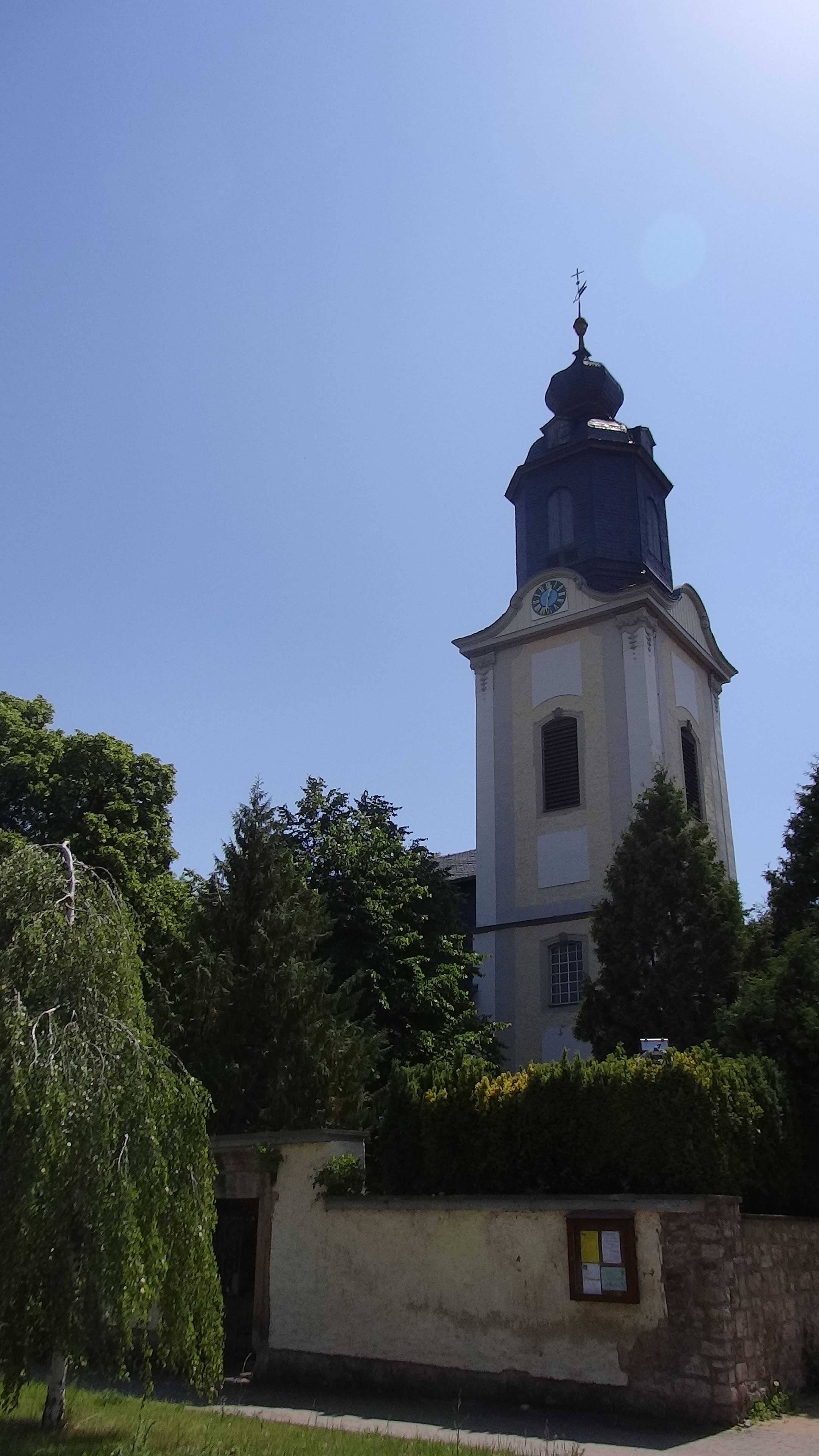 Church in Niederroßla, Thuringia, Germany